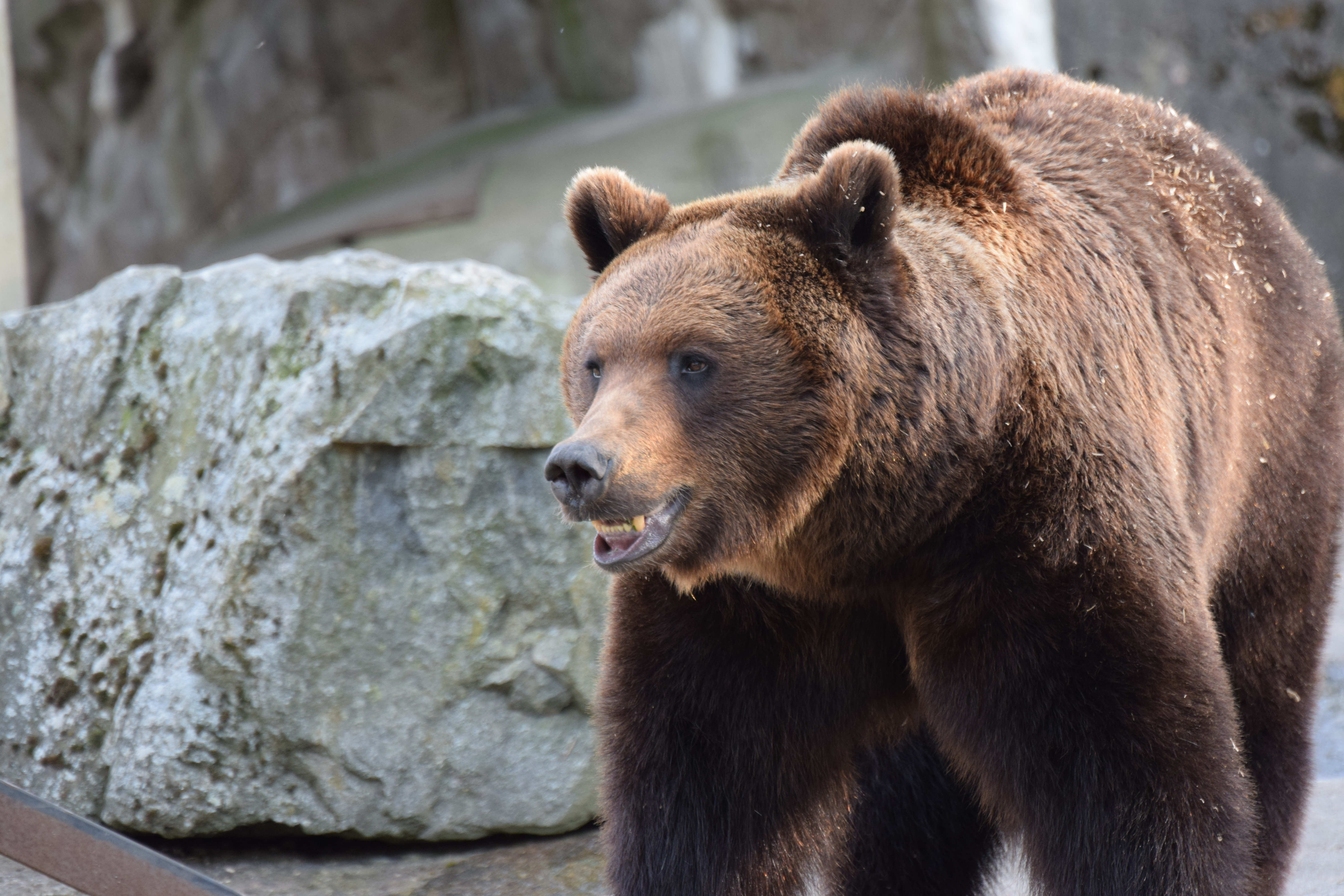 Swedish Brown Bear at Skansen